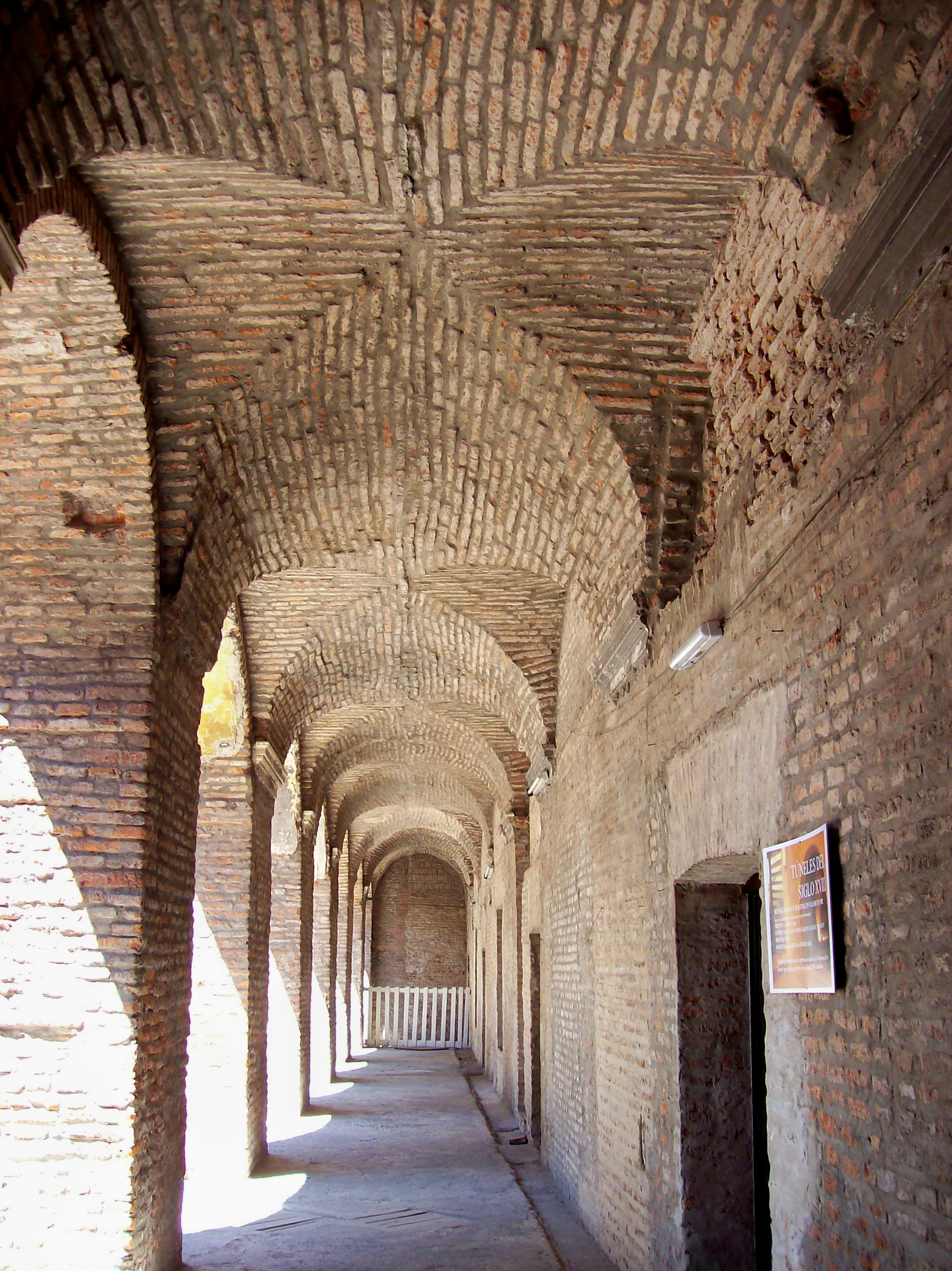 Manzana de las Luces, in "Barrio de Monserrat", Buenos Aires, near Plaza de Mayo. Photography of its inside patio